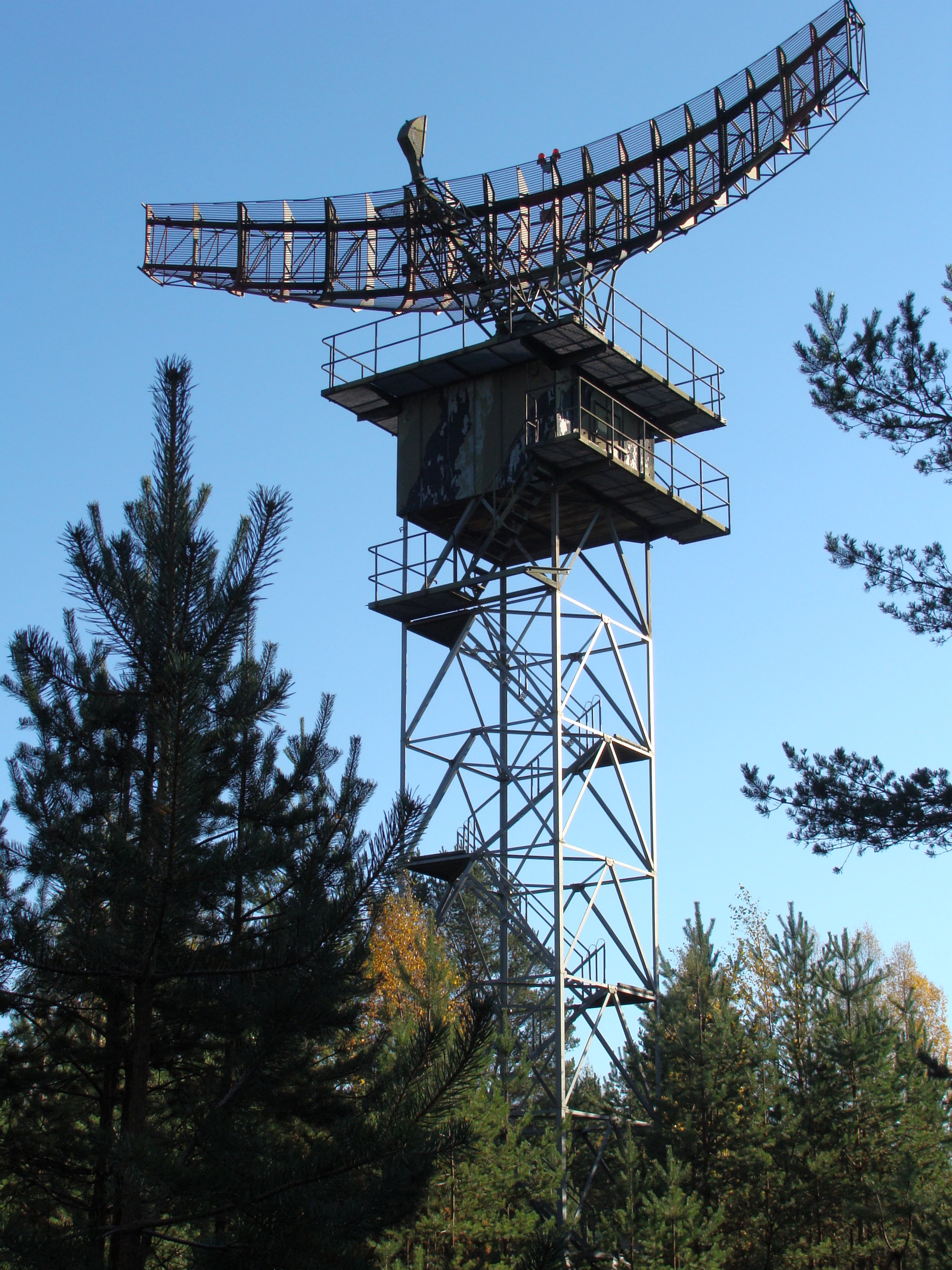 Radar antenna L band TAR, in museum Keski-Suomen Ilmailumuseo Finland; ITU-classificatio: Radiolocation land station in the radiolocation service.